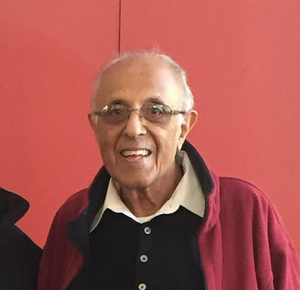 South African activist Ahmad Kathrada in 2016. Cropped from File:Kathrada Coons 2016.jpg